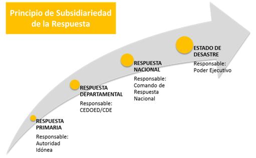 Subsidiariedad de la respuesta, por el Sistema Nacional de Emergencias